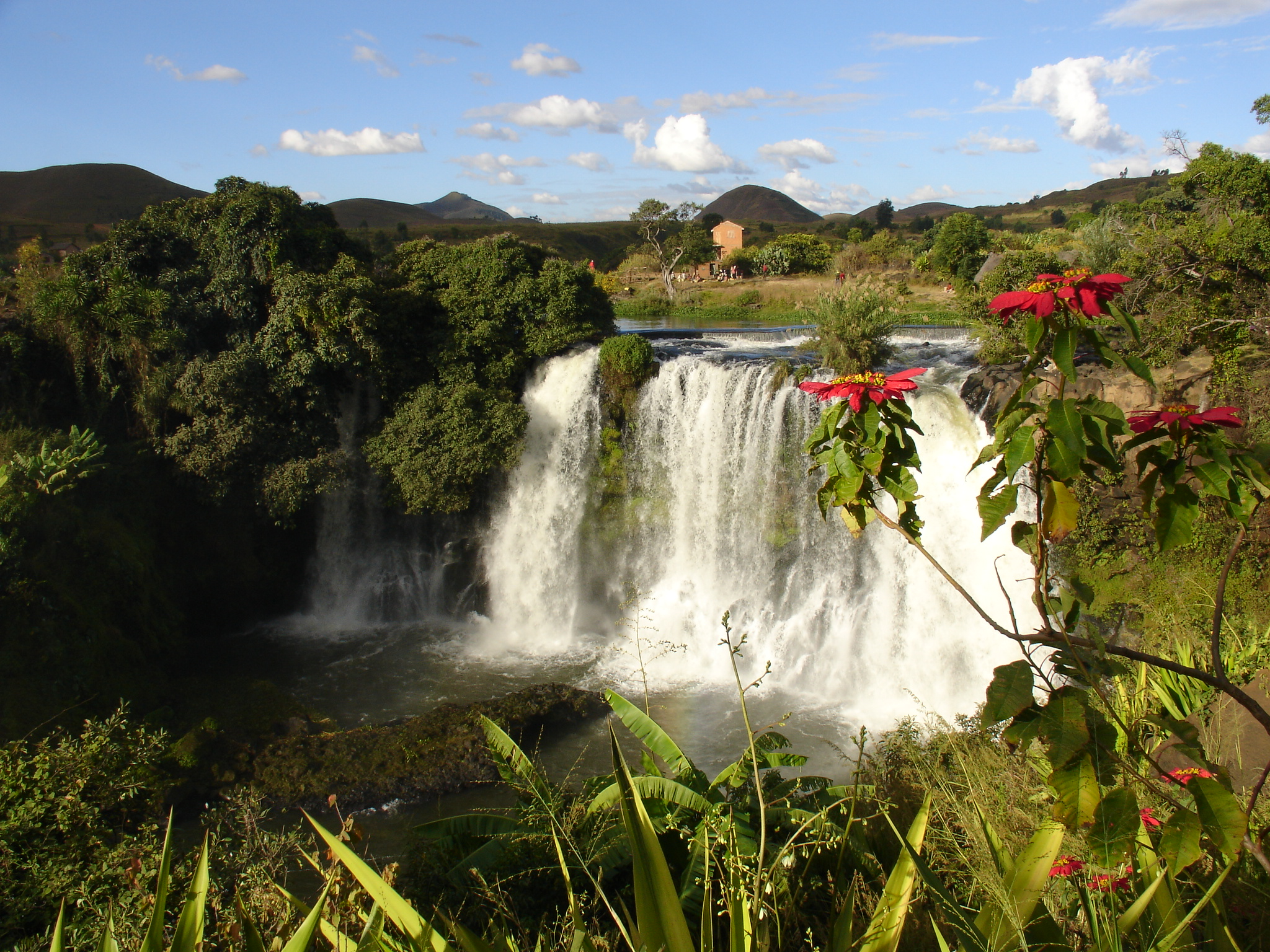 Chute de la Lily (Lily waterfalls) near the village Antafofo in Ampefy, Madagascar. Lily River feeds the Lake Itasy.